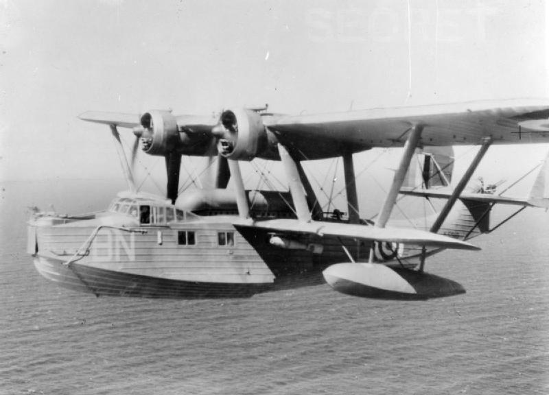 Aircraft of the Royal Air Force 1939-1945- Saro A.27 London. London Mark II, K5910 ‘BN-L’, of No. 240 Squadron RAF based at Sullom Voe, Shetland Islands, in flight over the North Sea.